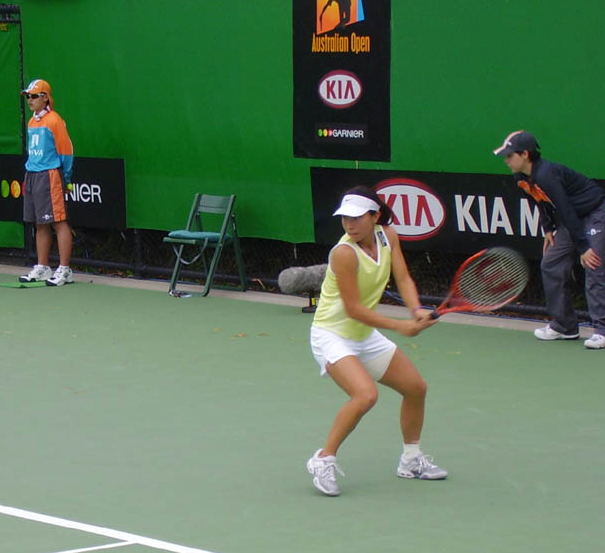 Zheng Jie in the first round of the 2006 Australian Open